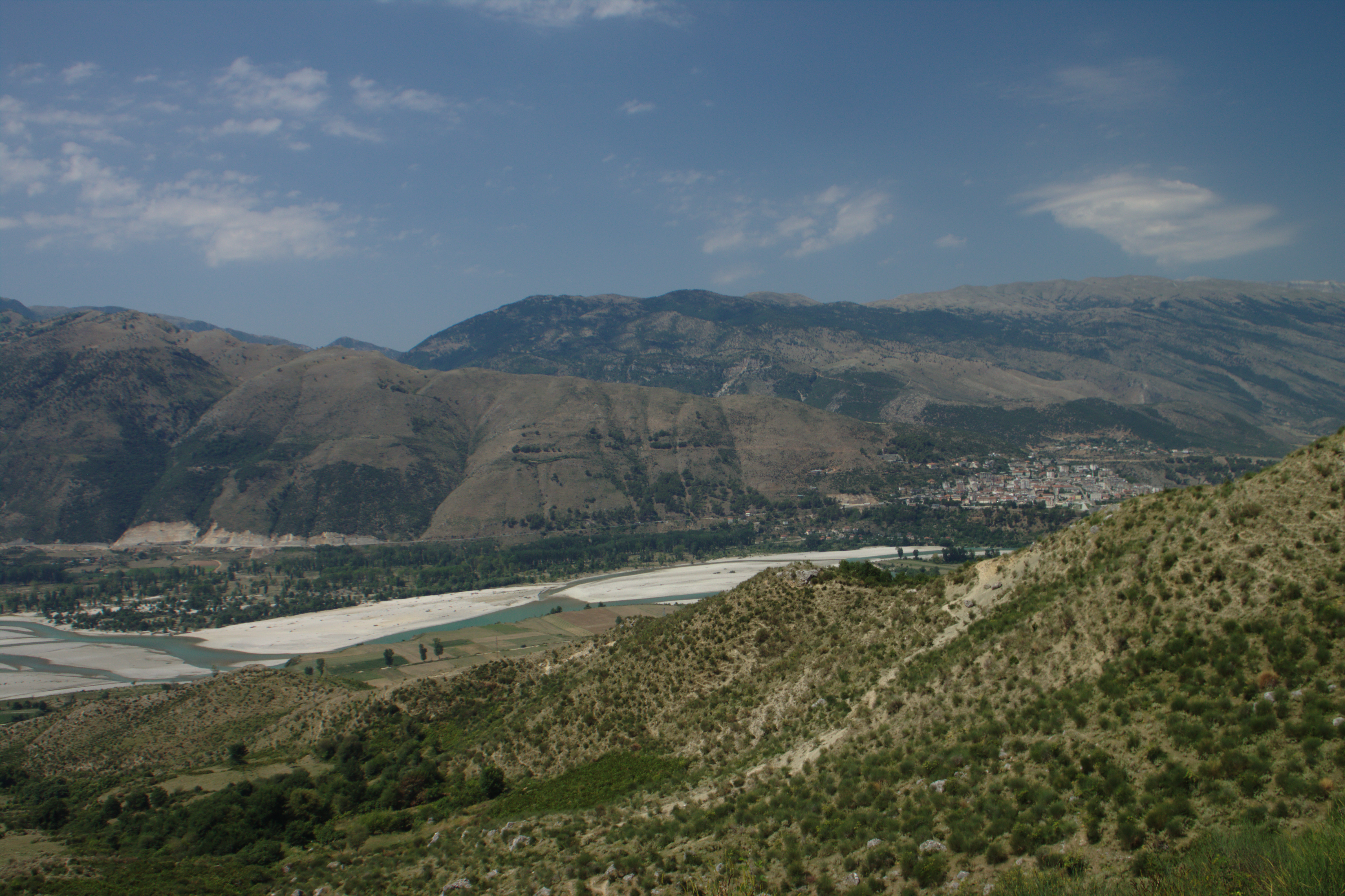 Westernmost part of the Mali i Shëndëllisë mountains in Albania, near Tepelenë